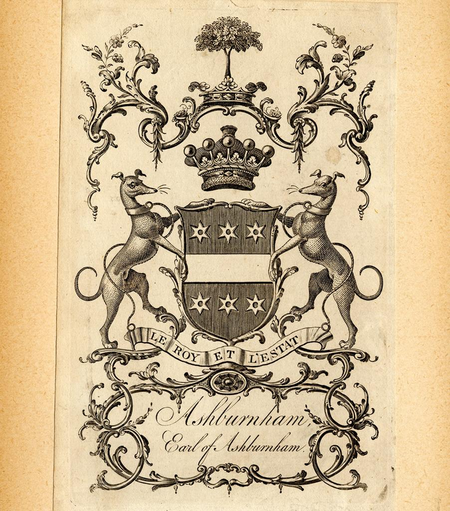 Pictorial Bookplates. Subject: Coat of arms; Shields; Crowns; Stars; Trees. Subject - Personal Name: Ashburnham, Earl of.